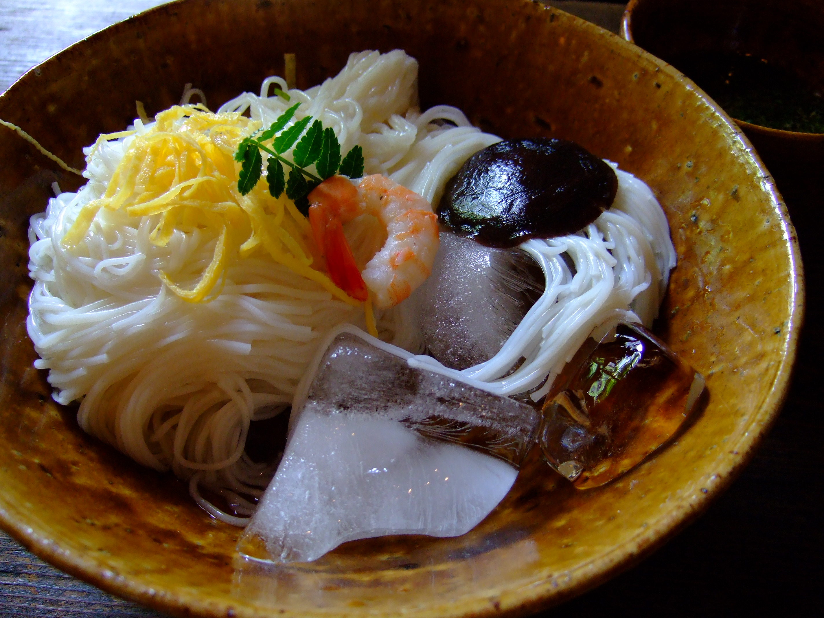 Miwa somen.